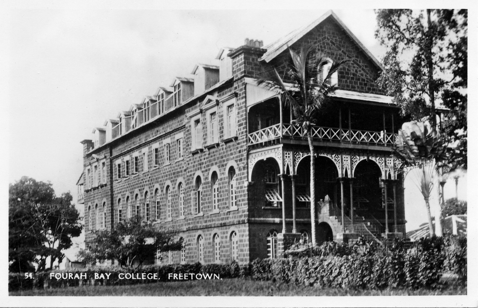 Fourah Bay College, Freetown, postcard early 1930s